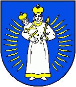 Coat of arms of Slovak village Spišský Štiavnik, Poprad District, Prešov Region.